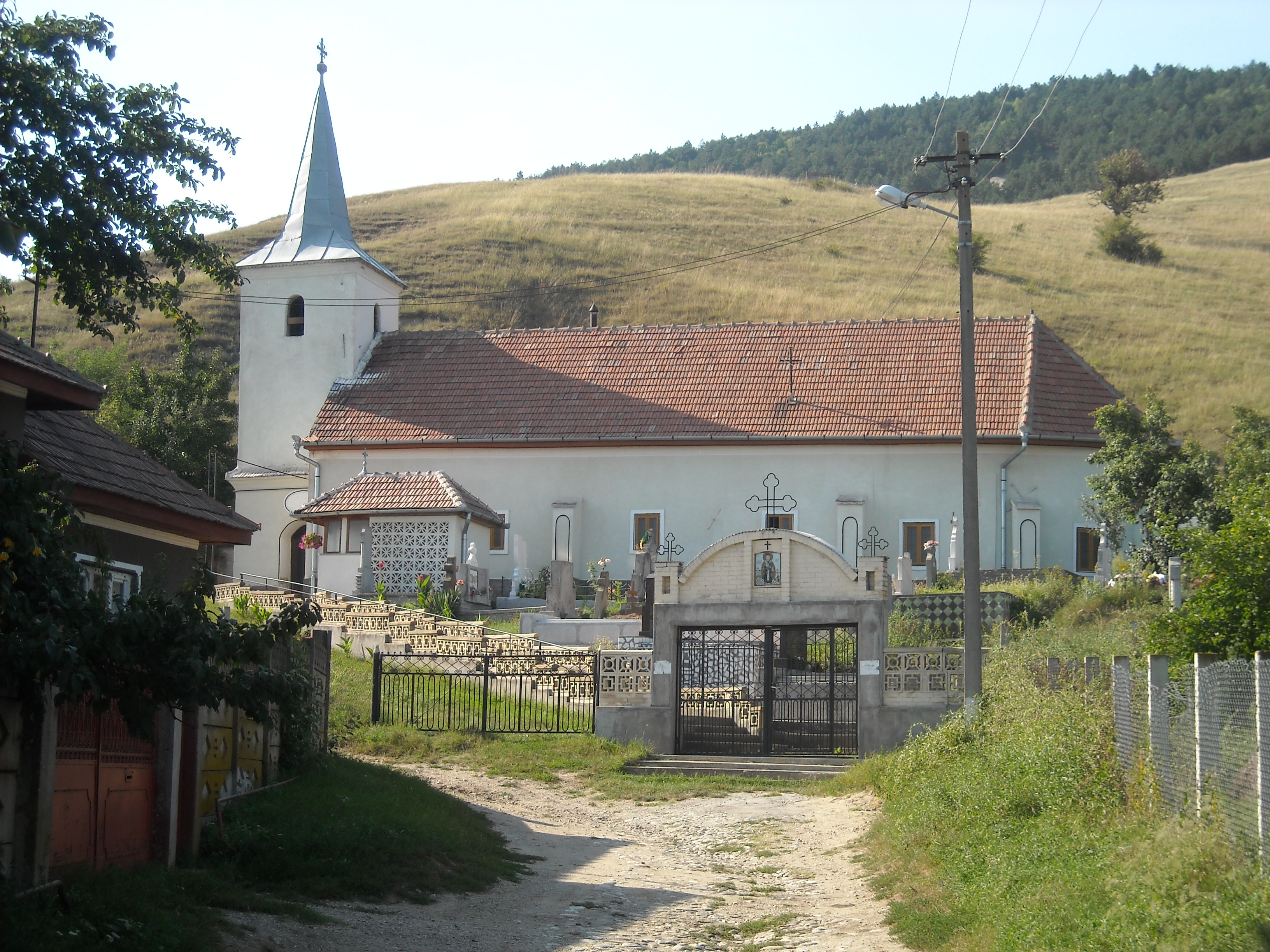 Orthodox church in Vurpăr, Alba County, Romania